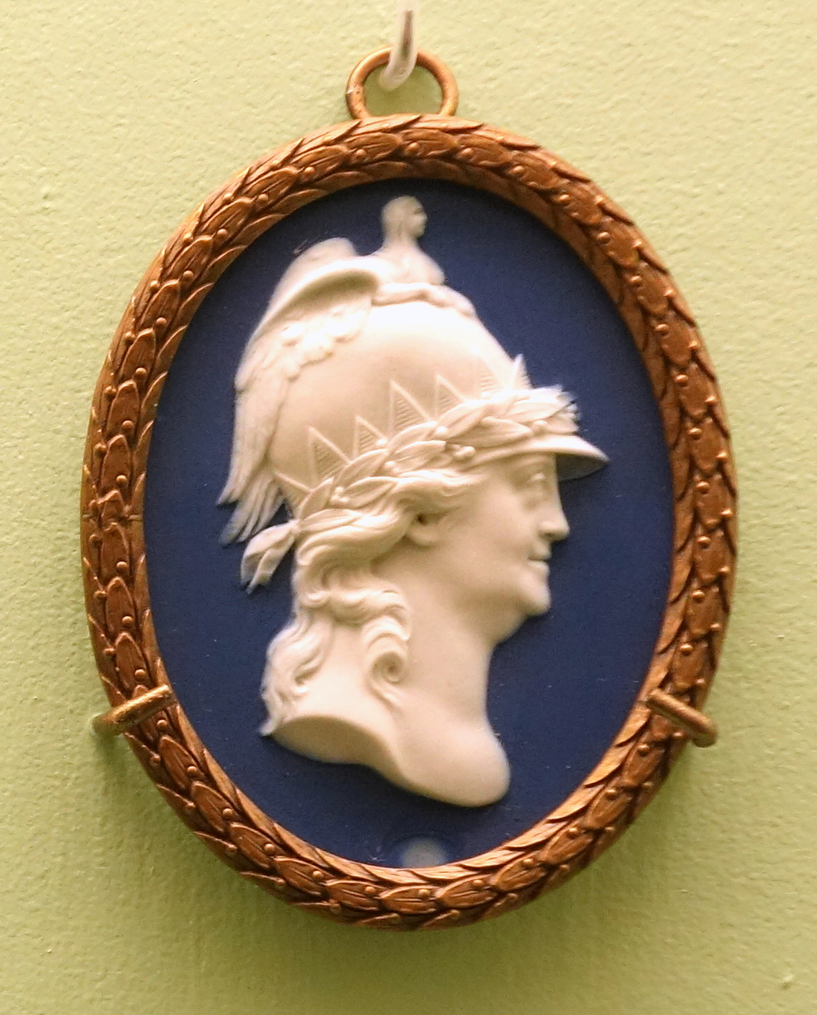 Exhibit in the Brooklyn Museum - Brooklyn, New York, USA. This artwork is in the public domain because the artist died more than 70 years ago.